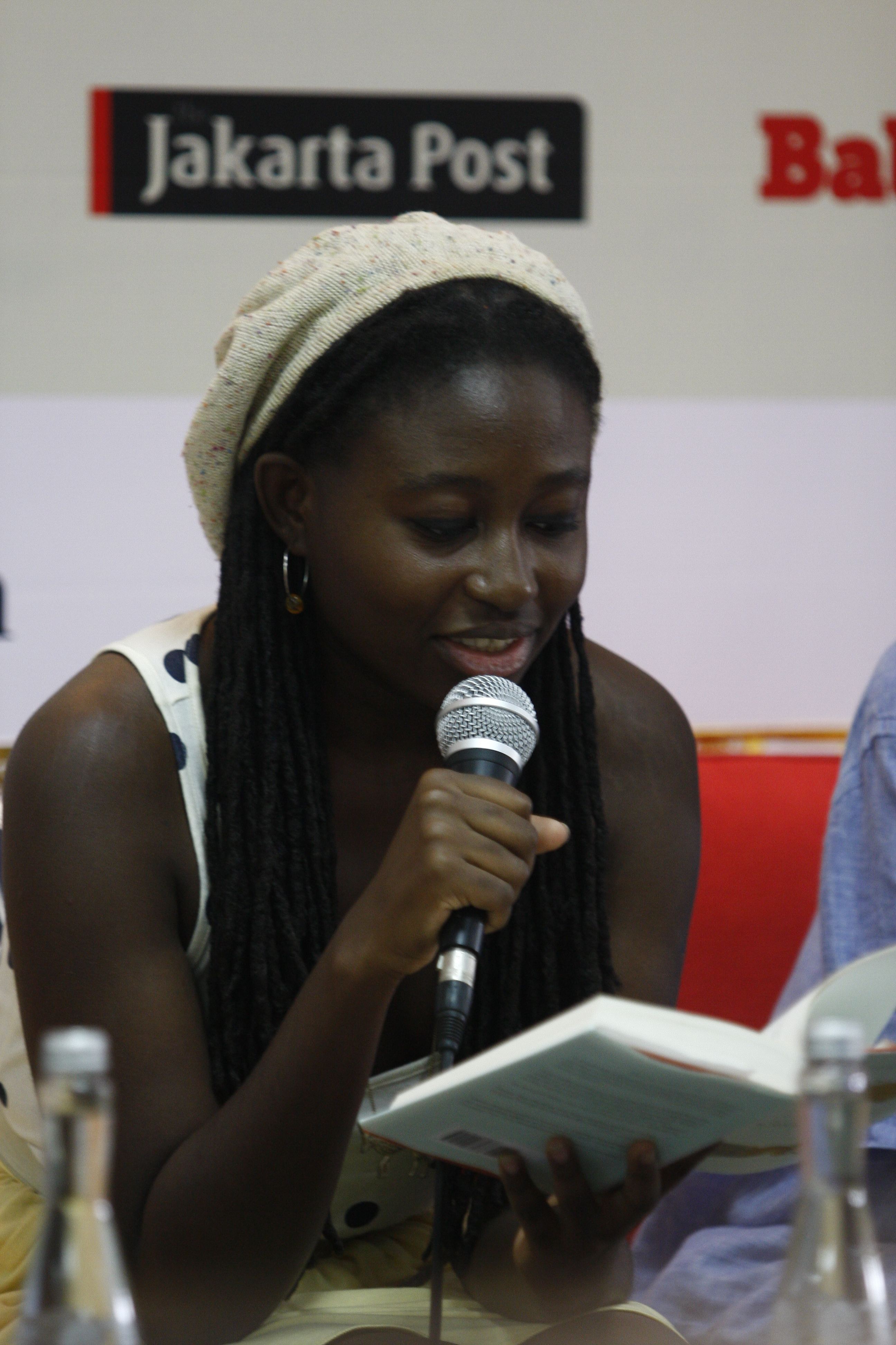 Ubud Writers & Readers Festival 2012. Image credit Stanny Angga.